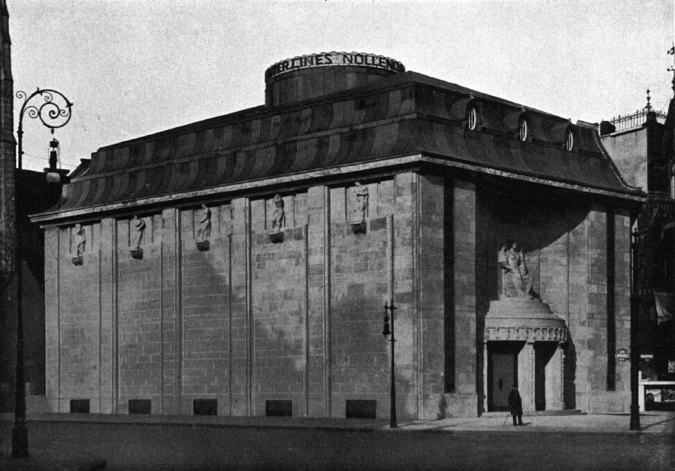 Cines Nollendorf-Theater, 4 Nollendorfplatz, Berlin, c1913-1914 (later named Ufa-Pavillon). General external view from the Nollendorfplatz. The architect was Oskar Kauffmann (1873 - 1956), and the seated figure above the entrance and the bas-reliefs of the frieze on the Motzstraße side are by Franz Metzner (1870 - 1919).